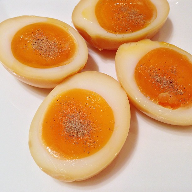 Dinner w/ 豐豐 + Chiming — more smoked eggs :) The eggs at Diamond Hill branch of Modern China tastes slightly different and has a more tea smoke flavor :) Chinese Food Culture 中國飲食文化 / SML.20121119.IPH5 / #ccby #smlphotography #cnfoodculture #smlprojects